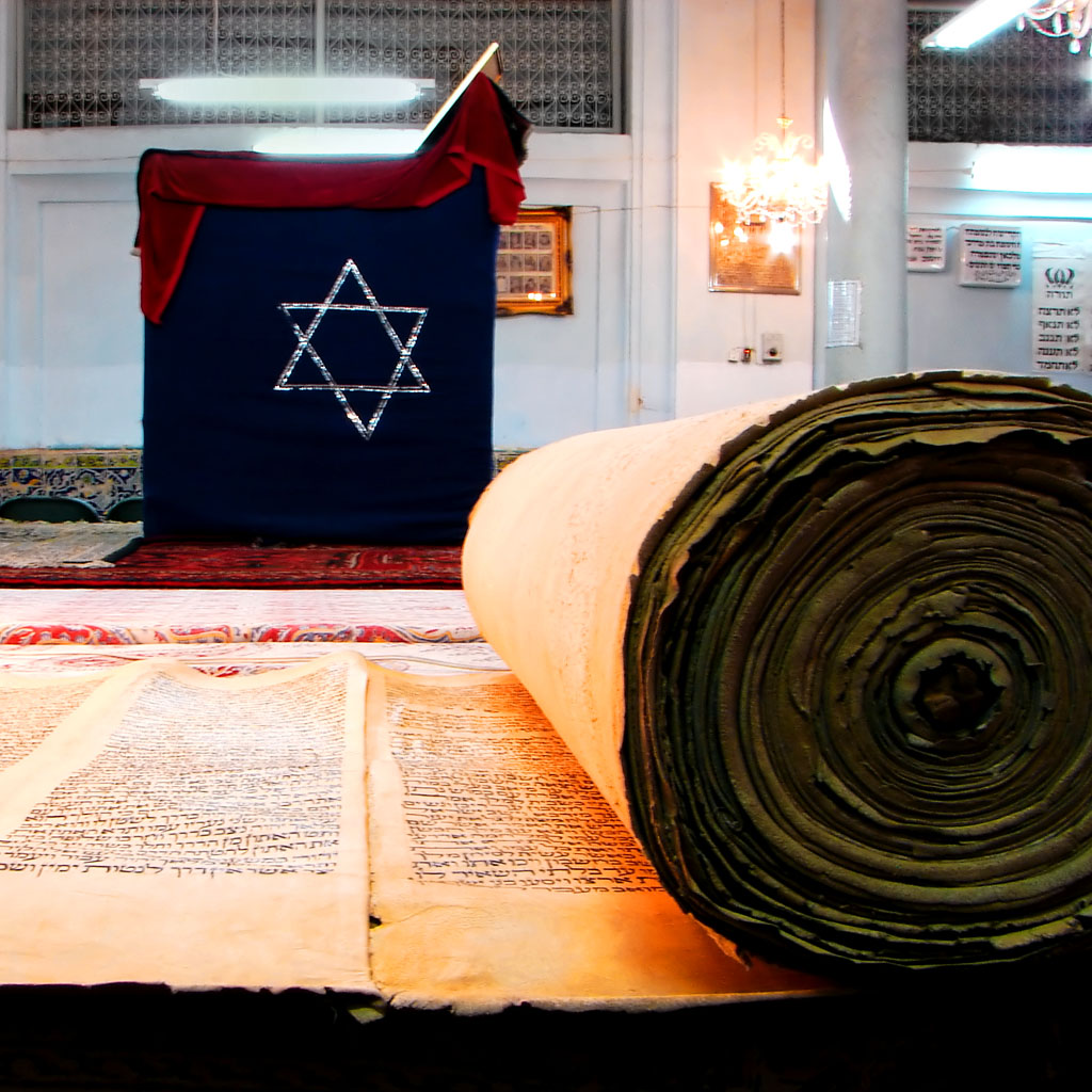 Mullah Jacub's Synagogue, Isfahan, Iran. This synagogue was built about 600 years ago.